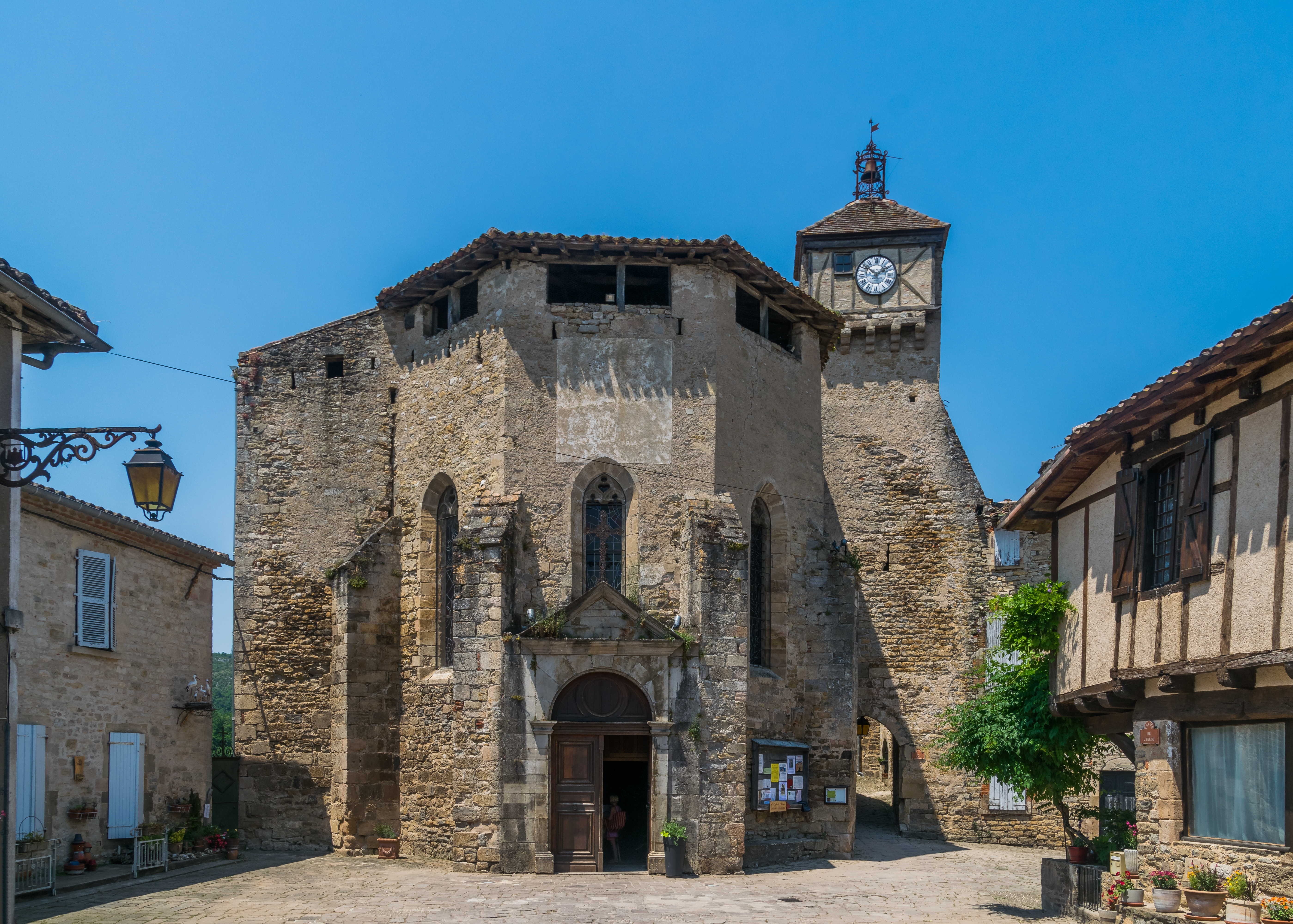 Saint Catherine Church of Penne, Tarn, France .